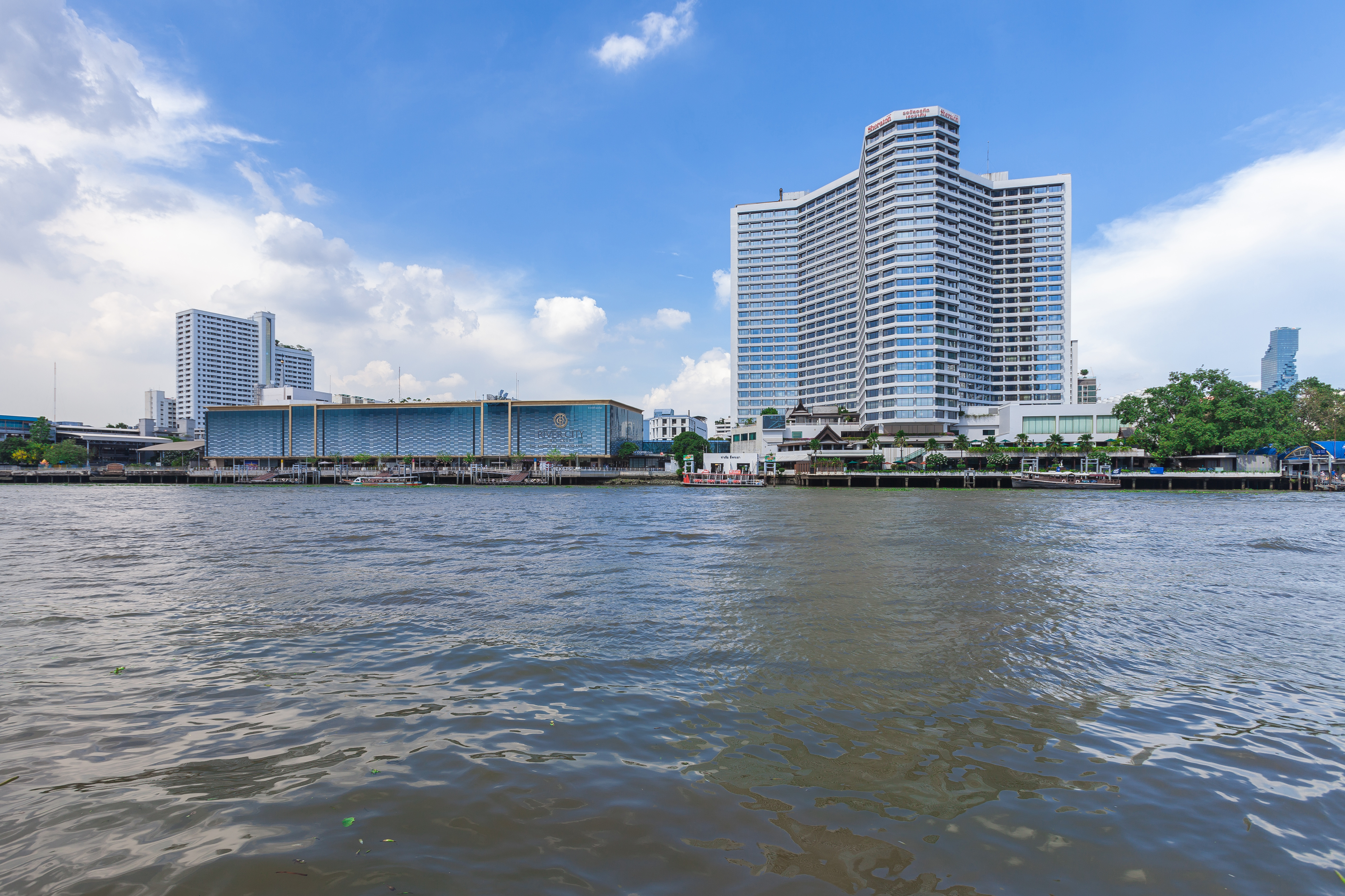 River City Shopping Complex is a shopping mall in Bangkok, Thailand.